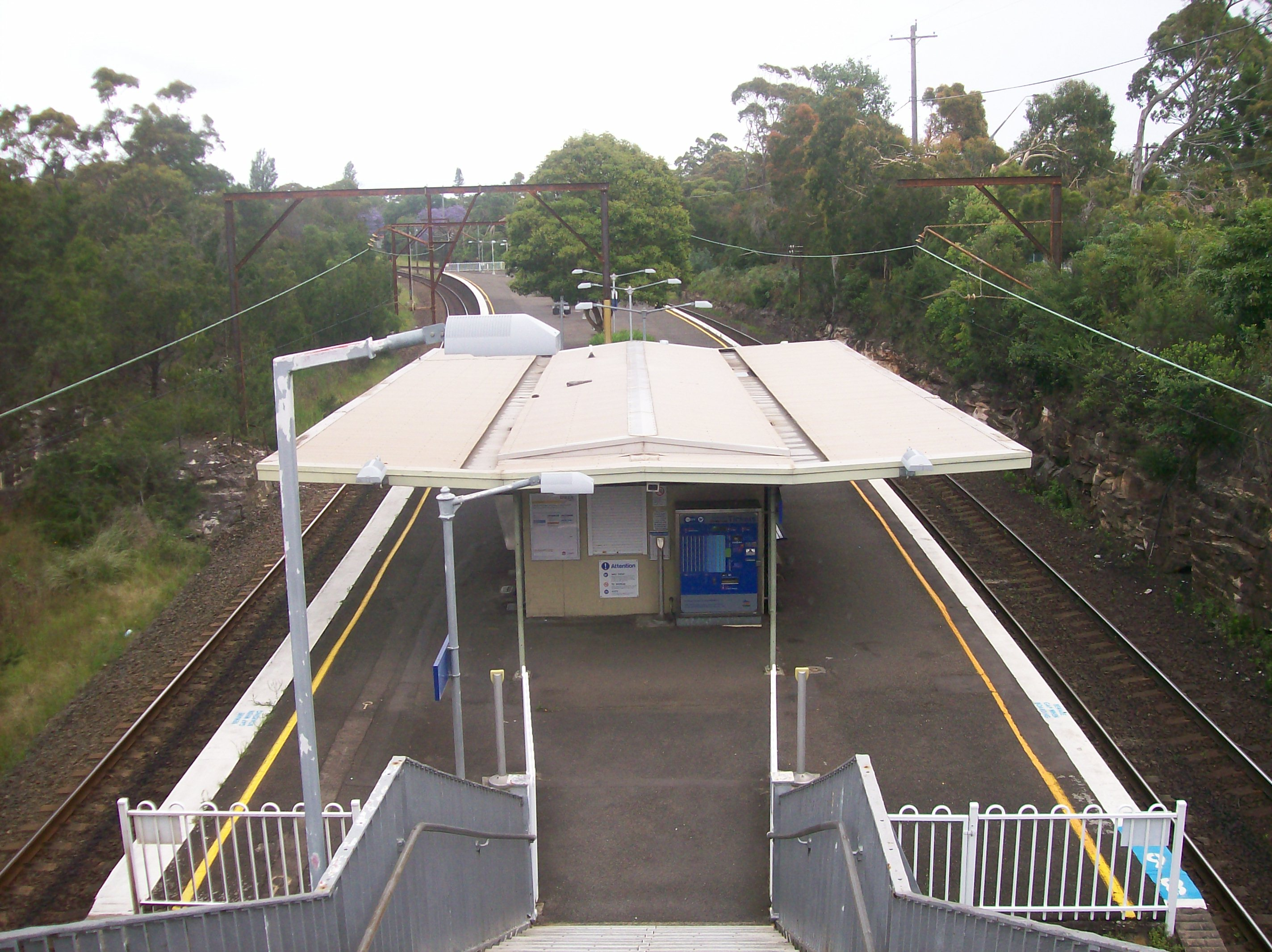 Mount Colah railway station